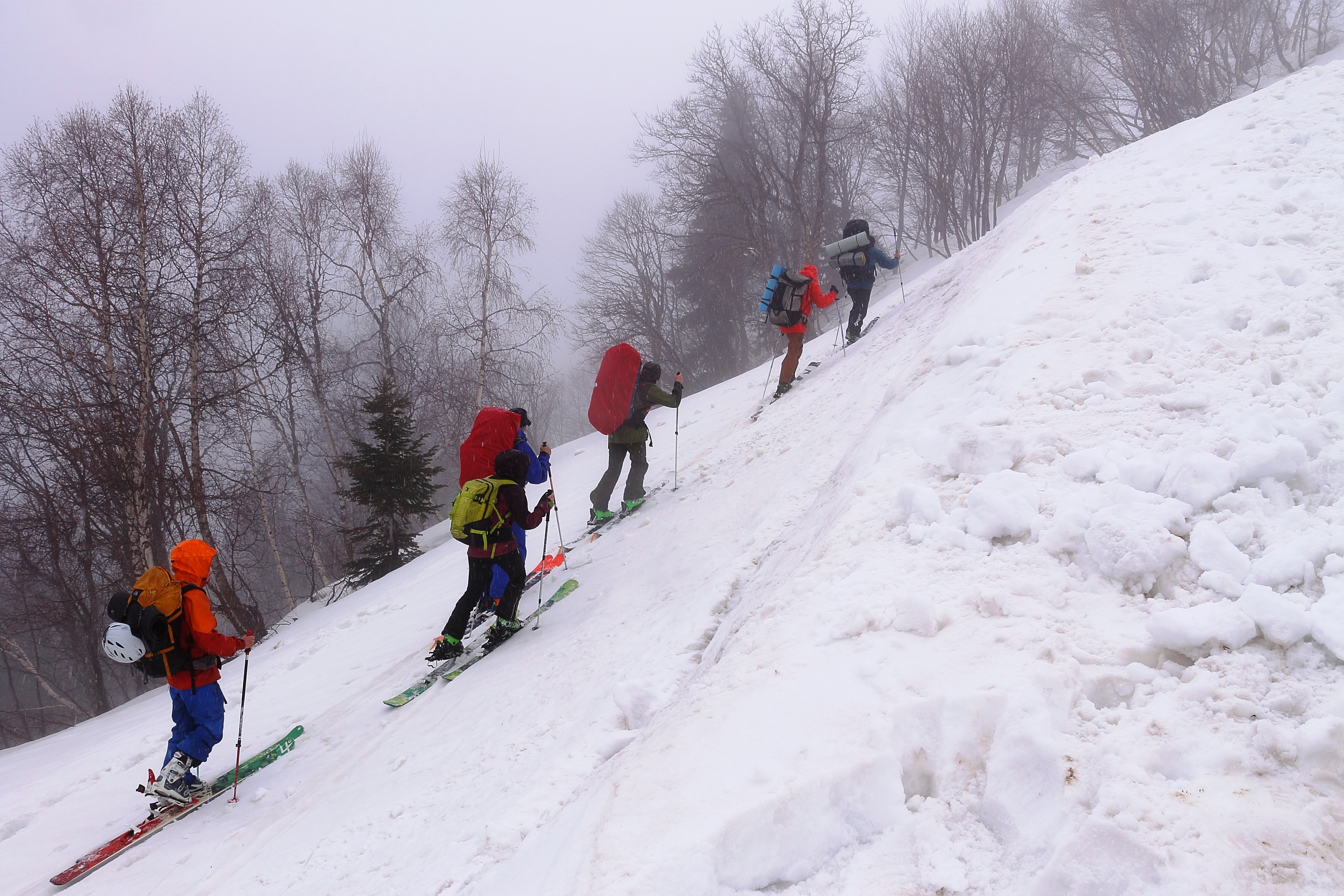 Ski touring in mountains near Krasnaya Polyana. Krasnodar Krai, Russia